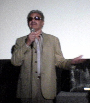 Photo of director Richard Rush.